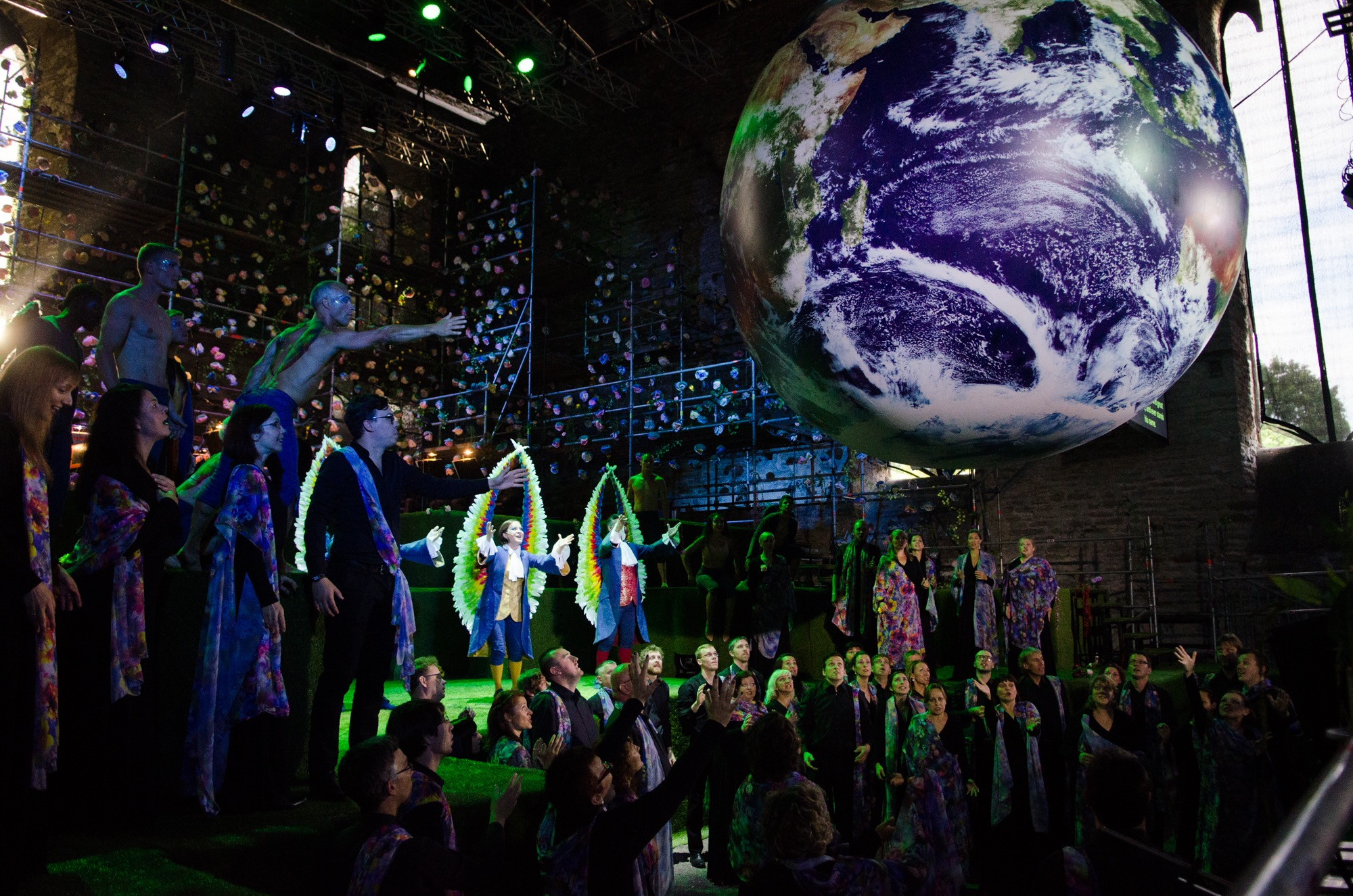 Haydni "Loomine" 2015. aasta Birgitta Festivalil